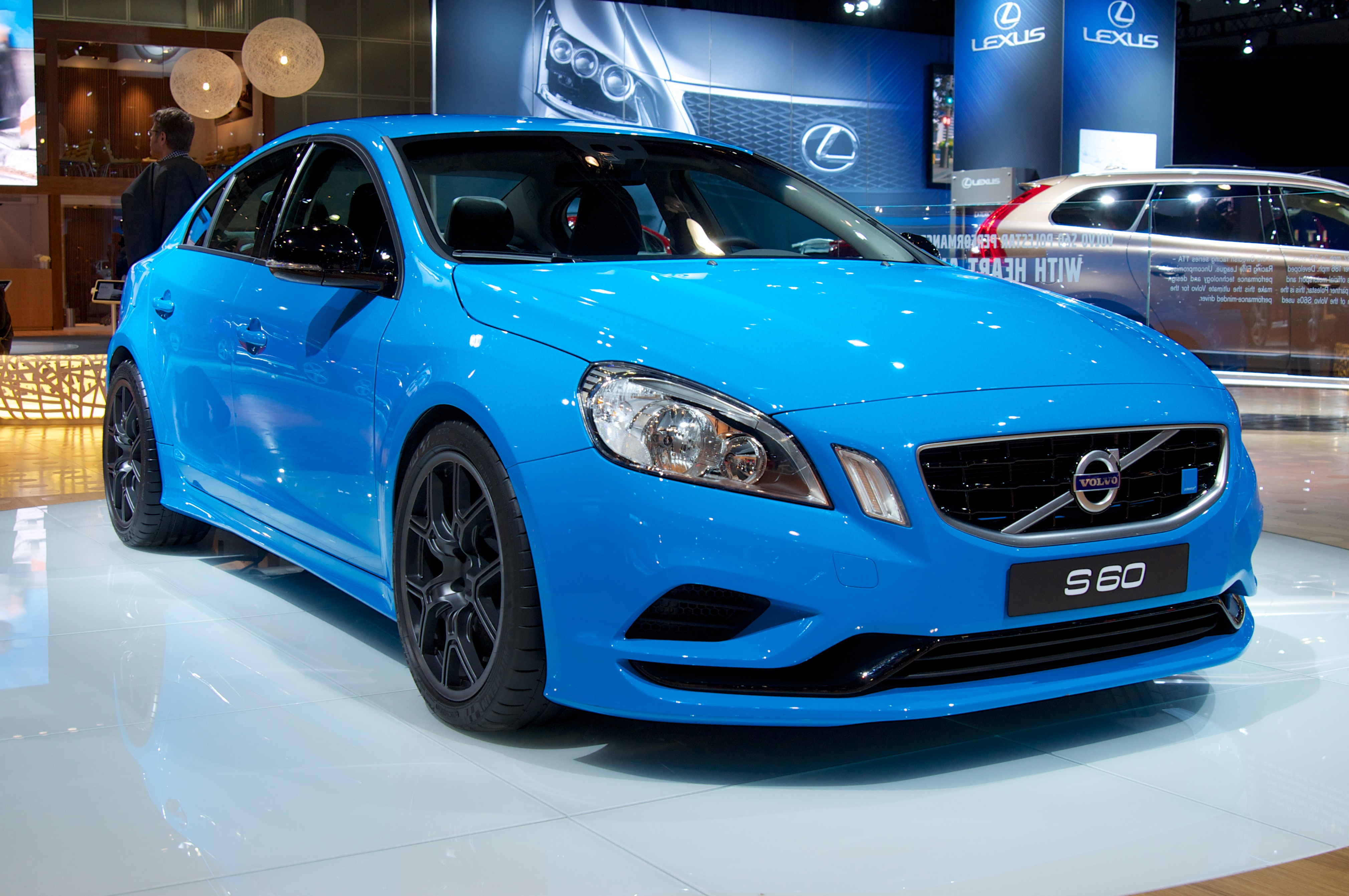 Seen at the 2012 Los Angeles Auto Show. Press day - Wednesday, November 28th. If you use one of my photos, please be so kind as to attribute me and link back to the photo's page. THANK YOU!